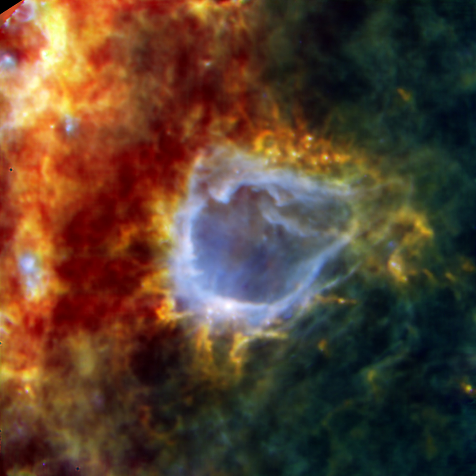 RCW 120 is a galactic bubble with a large surprise. How large? At least 8 times the mass of the Sun. Nestled in the shell around this large bubble is an embryonic star that looks set to turn into one of the brightest stars in the Galaxy. The Galactic bubble is known as RCW 120. It lies about 4300 light-years away and has been formed by a star at its centre. The star is not visible at these infrared wavelengths but pushes on the surrounding dust and gas with nothing more than the power of its starlight. In the 2.5 million years the star has existed. It has raised the density of matter in the bubble wall so much that the quantity trapped there can now collapse to form new stars. The bright knot to the right of the base of the bubble is an unexpectedly large, embryonic star, triggered into formation by the power of the central star. Herschel’s observations have shown that it already contains between 8-10 times the mass of our Sun. The star can only get bigger because it is surrounded by a cloud containing an additional 2000 solar masses. Not all of that will fall onto the star, even the largest stars in the Galaxy do not exceed 150 solar masses. But the question of what stops the matter falling onto the star is a puzzle for modern astronomers. According to theory, stars should stop forming at about 8 solar masses. At that mass they should become so hot that they shine powerfully at ultraviolet wavelengths. This light should push the surrounding matter away, much as the central star did to form this bubble. But clearly sometimes this mass limit is exceeded otherwise there would be no giant stars in the Galaxy. So astronomers would like to know how some stars can seem to defy physics and grow so large. Is this newly discovered stellar embryo destined to grow into a stellar monster? At the moment, nobody knows but further analysis of this Herschel image could give us invaluable clues.